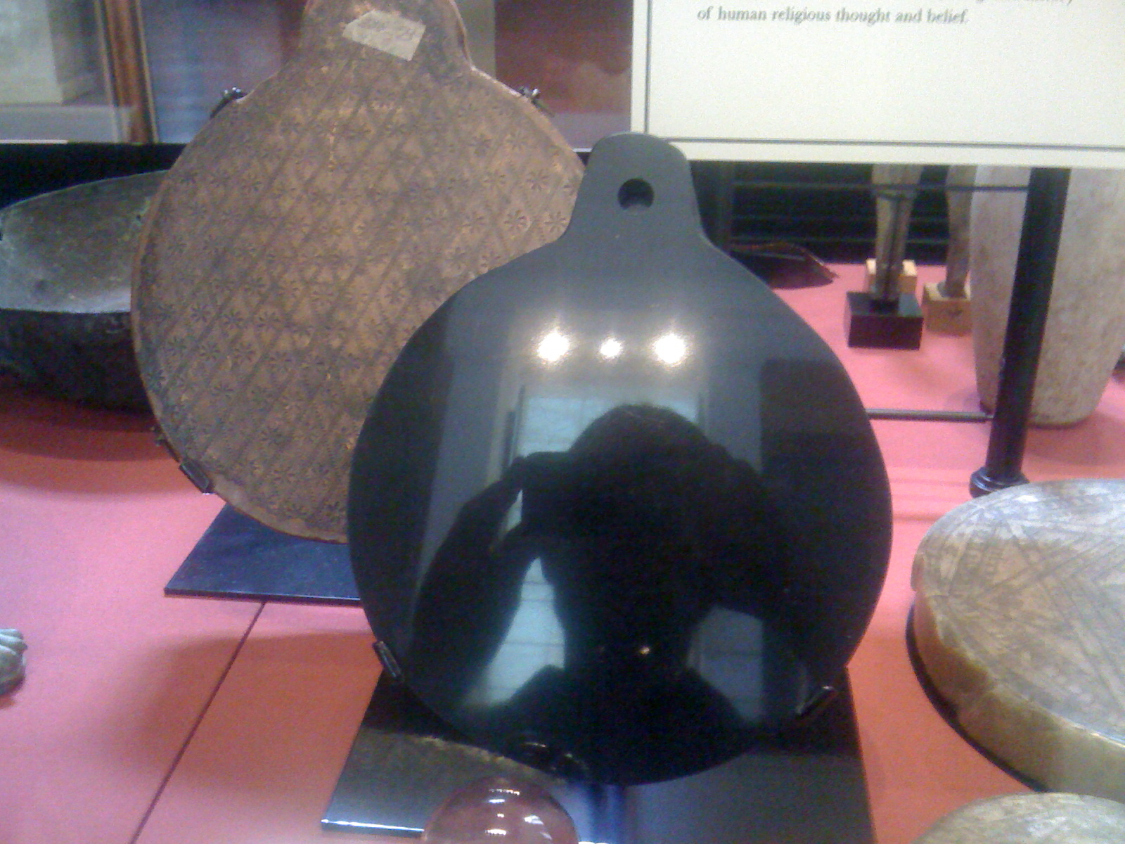 Aztec mirror that passed into the possession of Elizabethan court alchemist and astrologer John Dee. Now in the collection of the British Museum